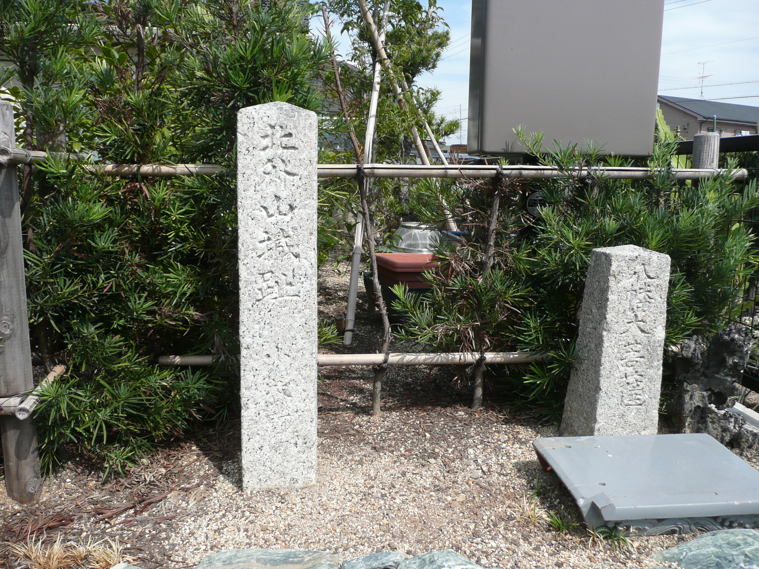 北外山城の石碑